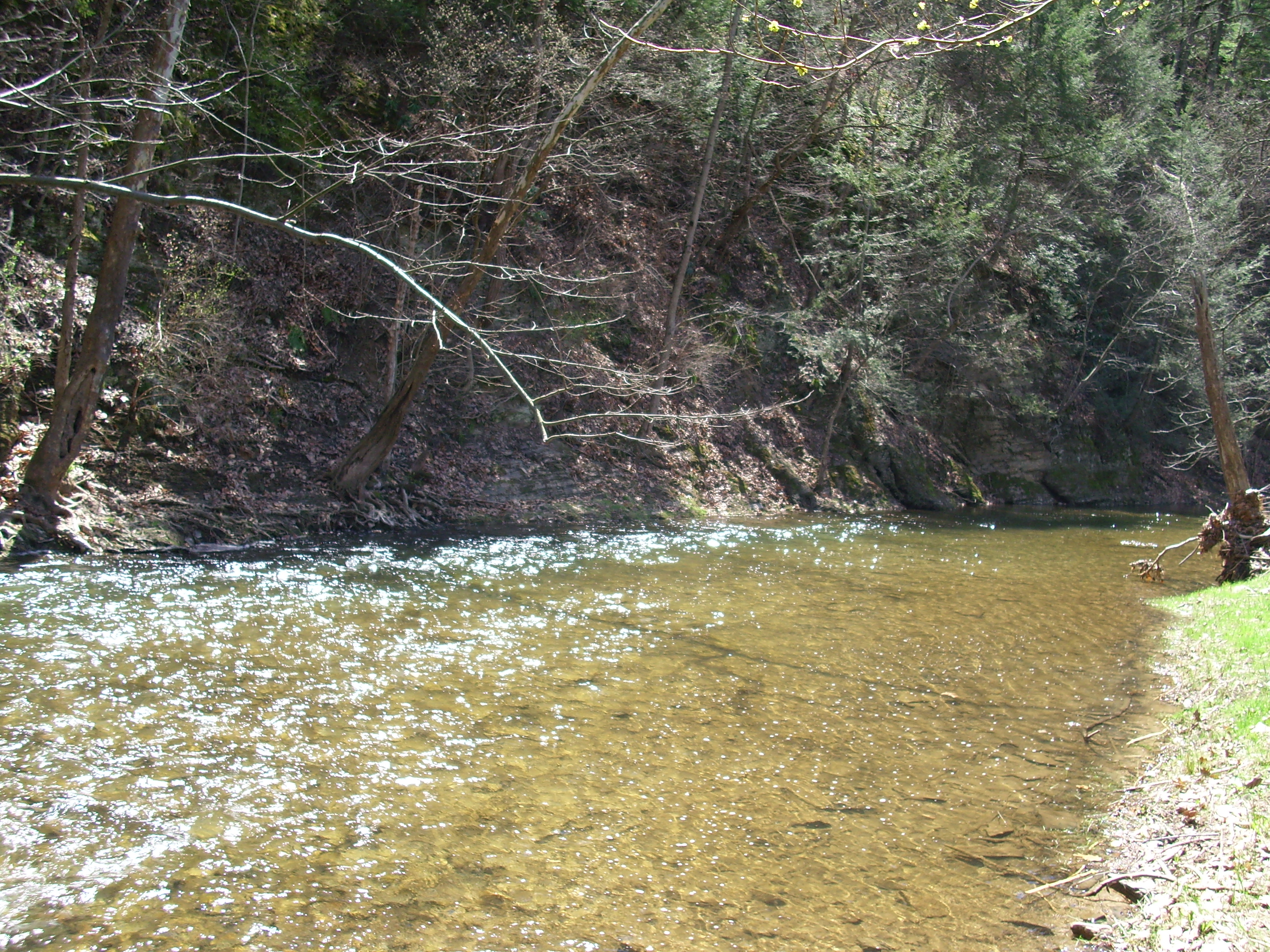 A picture of Evitts Creek from the nature trail of Allegany College of Maryland. The water looks perfect, but the fishing was a little less than perfect, unless catching creek chubs is something you enjoy. Stream is flowing left to right.